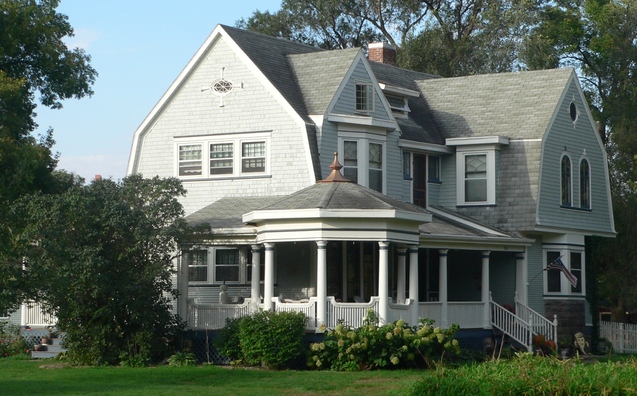 William Higinbotham house, at 511 Main Street (southwest corner of Main and Wisconsin Streets) in Centerville, South Dakota; seen from the northeast.